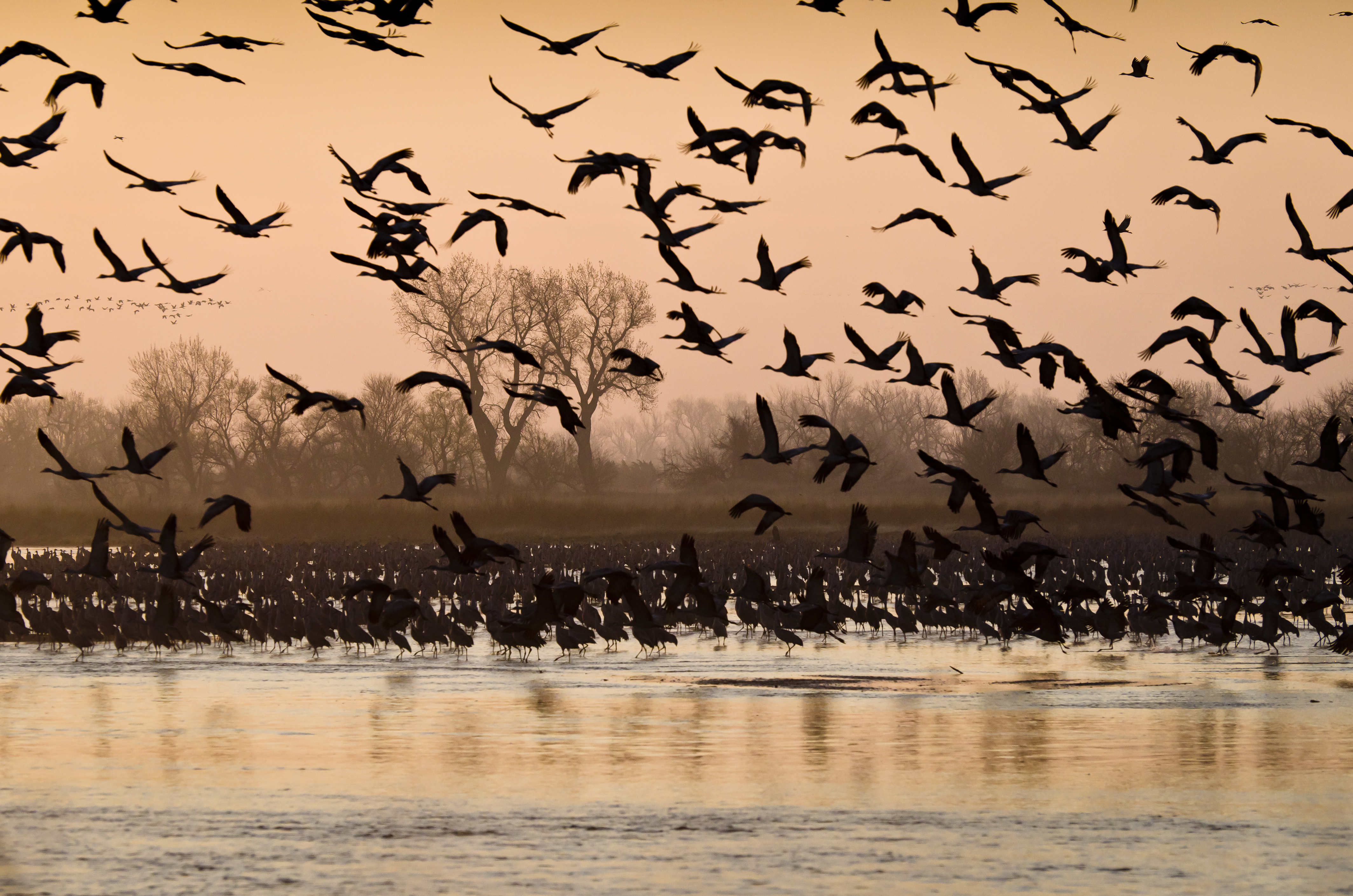 Every year hundreds of thousands of sandhill cranes congregate on the Platte River during their Spring migration, forming large flocks that use the sandbars of the Platte River as a nightime refuge before dispersing to local fields to feed during the day. Credit: Larry Crist / USFWS Photo Contest Entry #152